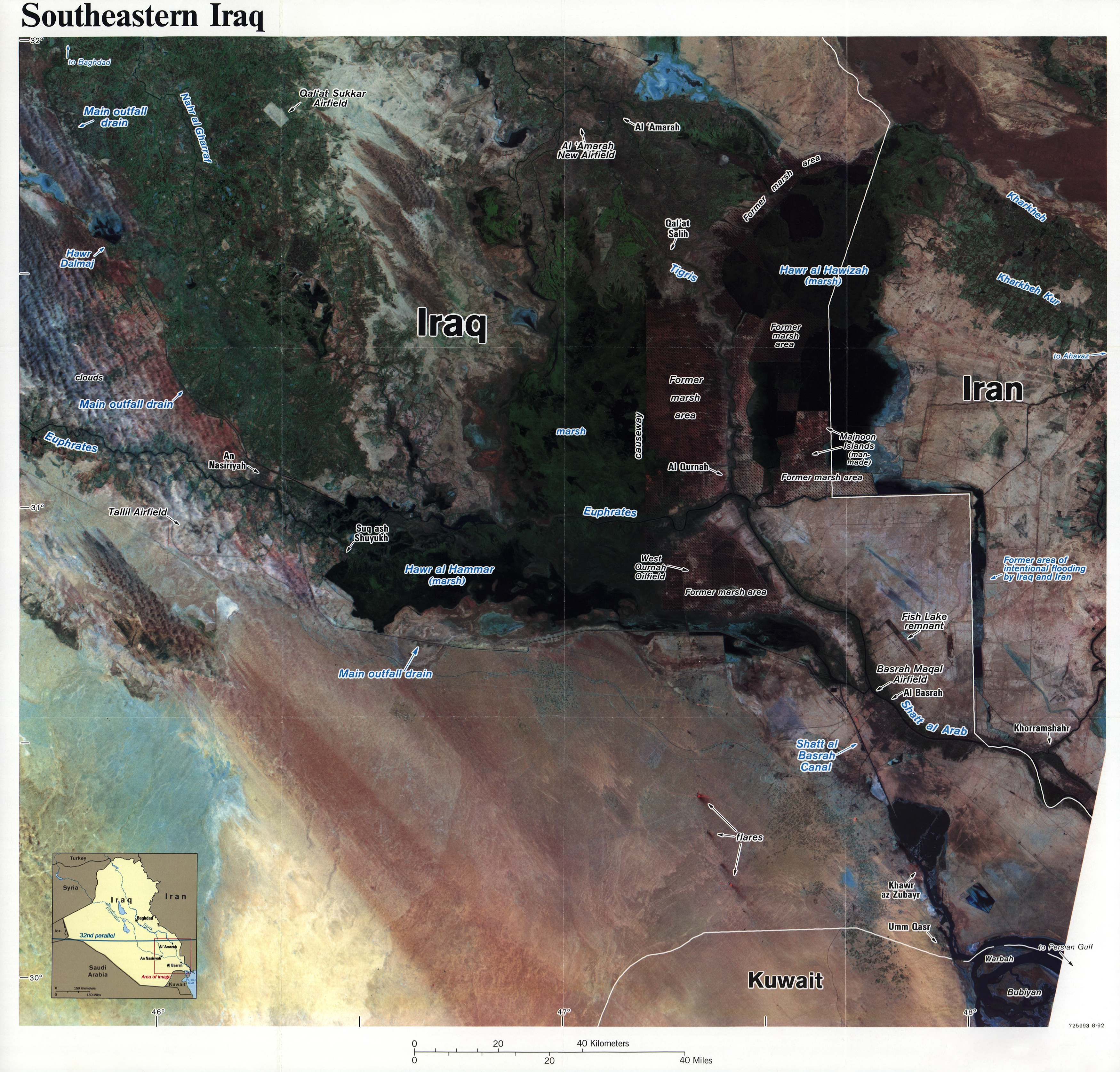 Satellite image map with strategic locations identified.